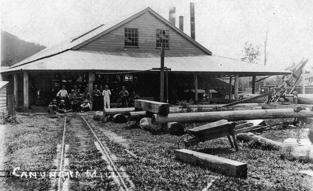 Canungra Mill, Canungra, ca. 1918 In 1884 David Lahey established the Canungra Sawmills. They were totally destroyed by fire in 1897 but rebuilt on a larger and more modern scale. In 1900 construction of the tramway began. Once more the Sawmills were destroyed by fire in 1906 but were rebuilt. In 1912 new machinery was installed. In 1920 Lahey's limited went into voluntary liquidation. ( Description supplied with photograph.).